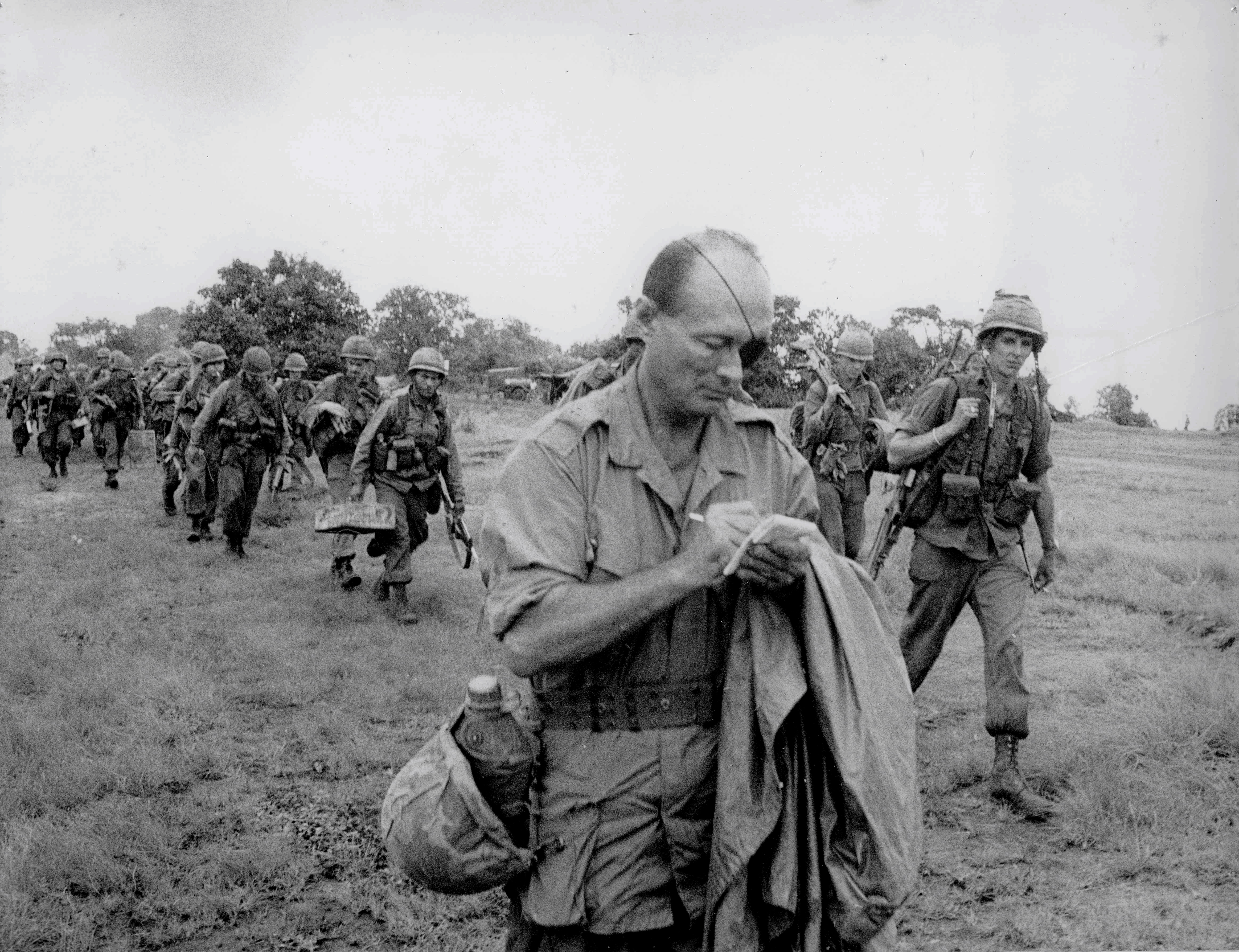 Moshe Dayan in the Vietnamese war zone. In August 1966 left Moshe Dayan to Far East to be close to the Vietnam War. To study the secrets of the modern war, he joined the US troops, participating in ambushes in jungles of South Vietam. Dayan published his war impressions in many world wide and Israeli magazines.